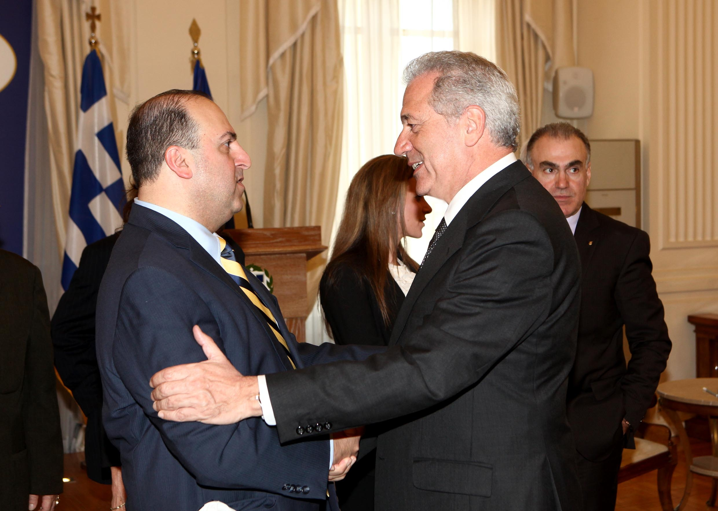 Foreign Minister Dimitris Avramopoulos met at the Foreign Ministry today with a delegation from the American Hellenic Educational Progressive Association (AHEPA). During the meeting, which took place in a warm atmosphere, AHEPA Supreme President John Grossomanides presented the organization’s multifaceted activities, while Mr. Avramopoulos congratulated Mr. Grossomanides on AHEPA’s national and social work throughout the economic crisis, as well as on the organization’s consistent promotion of and support for Greek foreign policy stances in the U.S. and Canada. Among the issues discussed were AHEPA’s contribution to the promotion of the Greek economy’s comparative advantages and the attraction of foreign investments from the U.S. and Canada to Greece, as well as increased tourist flows from these countries.